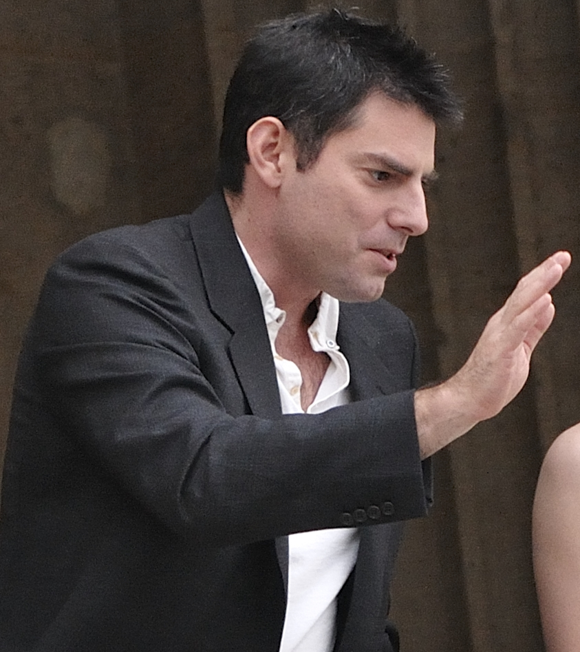 Director Chris Weitz attending the Twilight Saga Film New Moon (Twilight Chapitre 2 Tentation) Photocall at the Crillon Hotel in Paris, France on November 10, 2009.